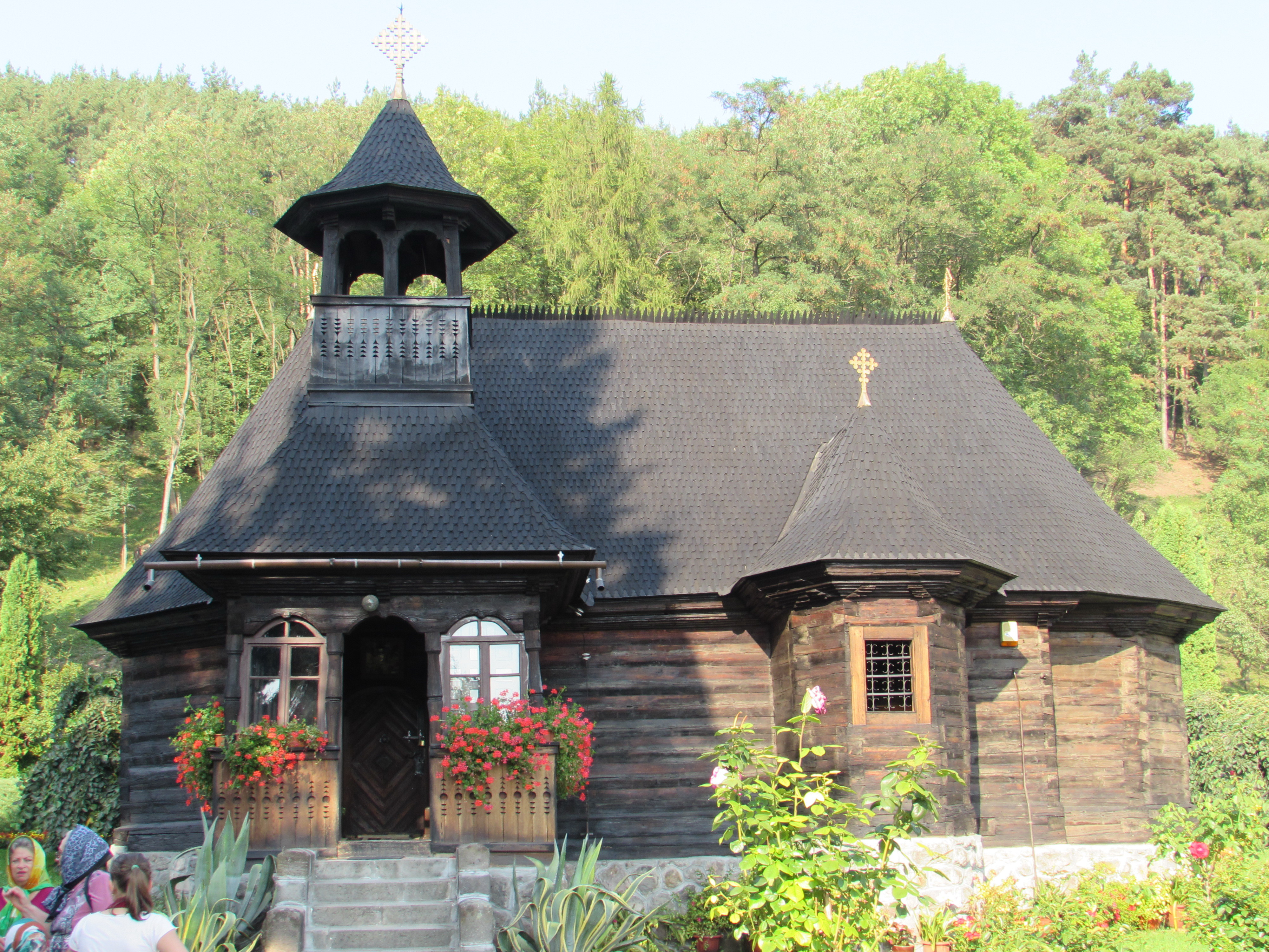 Toplița Monastery, Harghita County, Romania - The Wooden Church, built in 1847